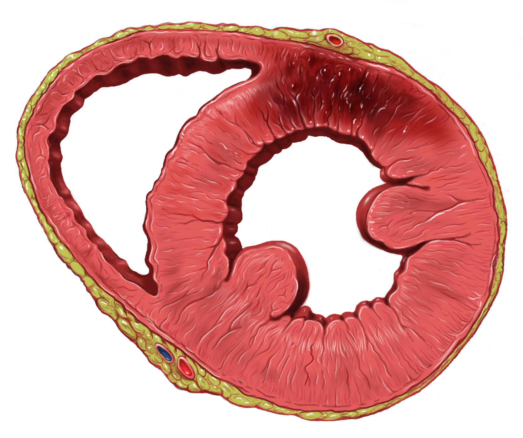 Heart Posterior left ventricle wall infarction